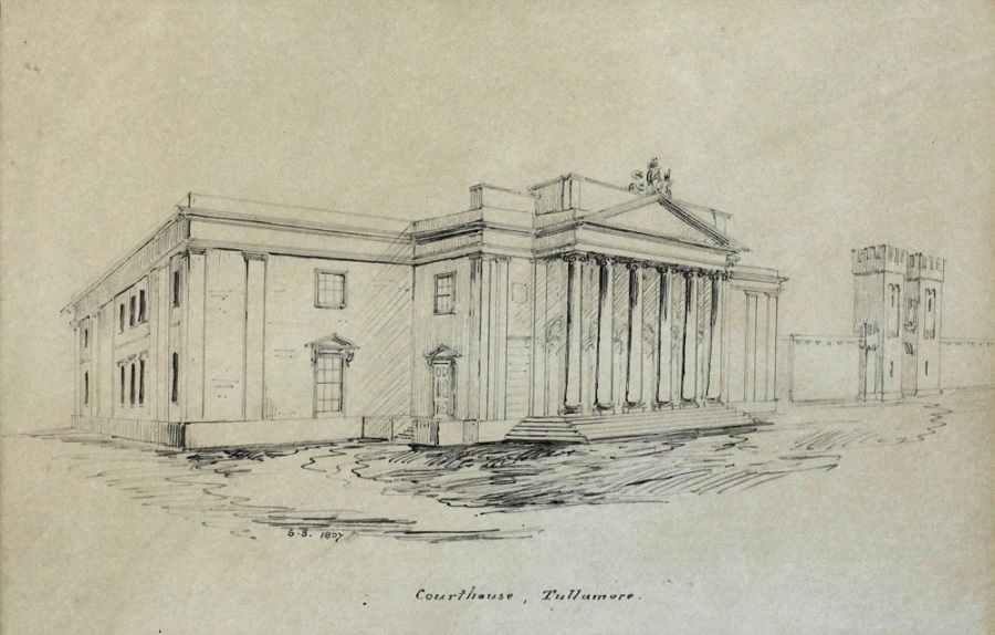 Drawing of Tullamore Courthouse and Tullamore Jail front, County Offaly, Ireland